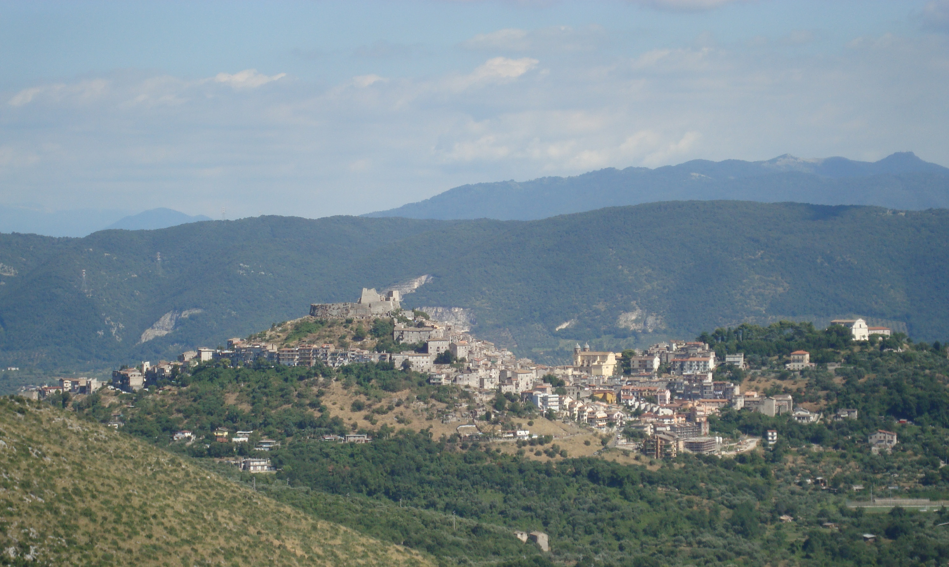 Vue de Montecelio (commune de Guidonia Montecelio) depuis Sant'Angelo Romano